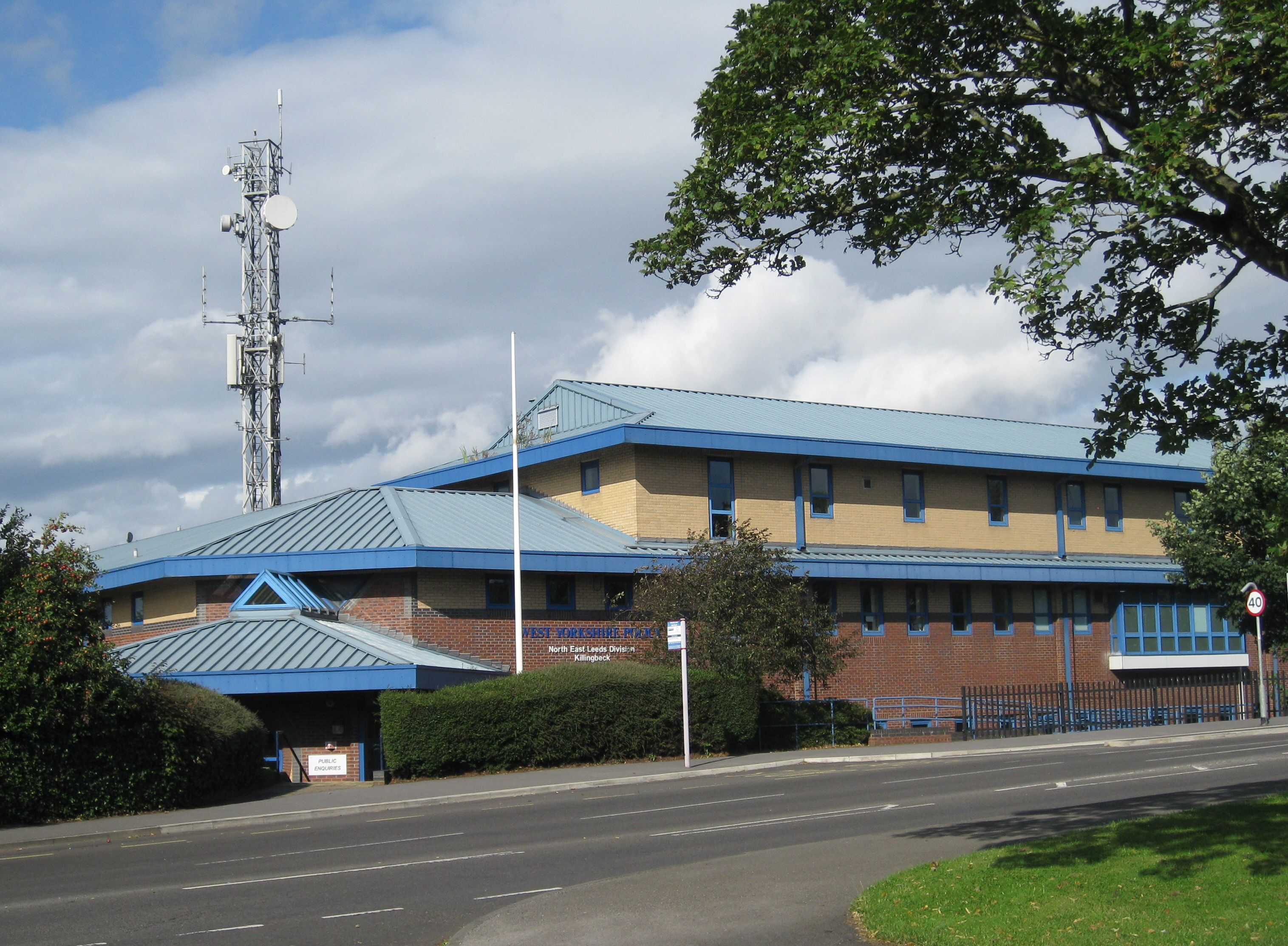 Killingbeck Police Station, Foundry Road, Killingbeck, Leeds LS14. A communication tower is visible.